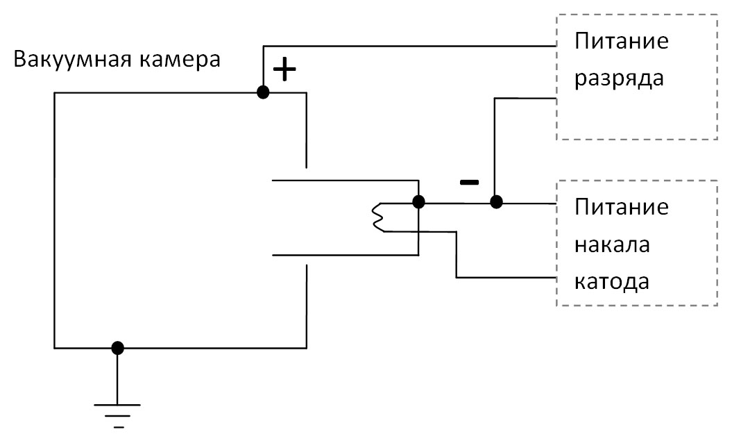 Arc discharge with hot cathode sheme